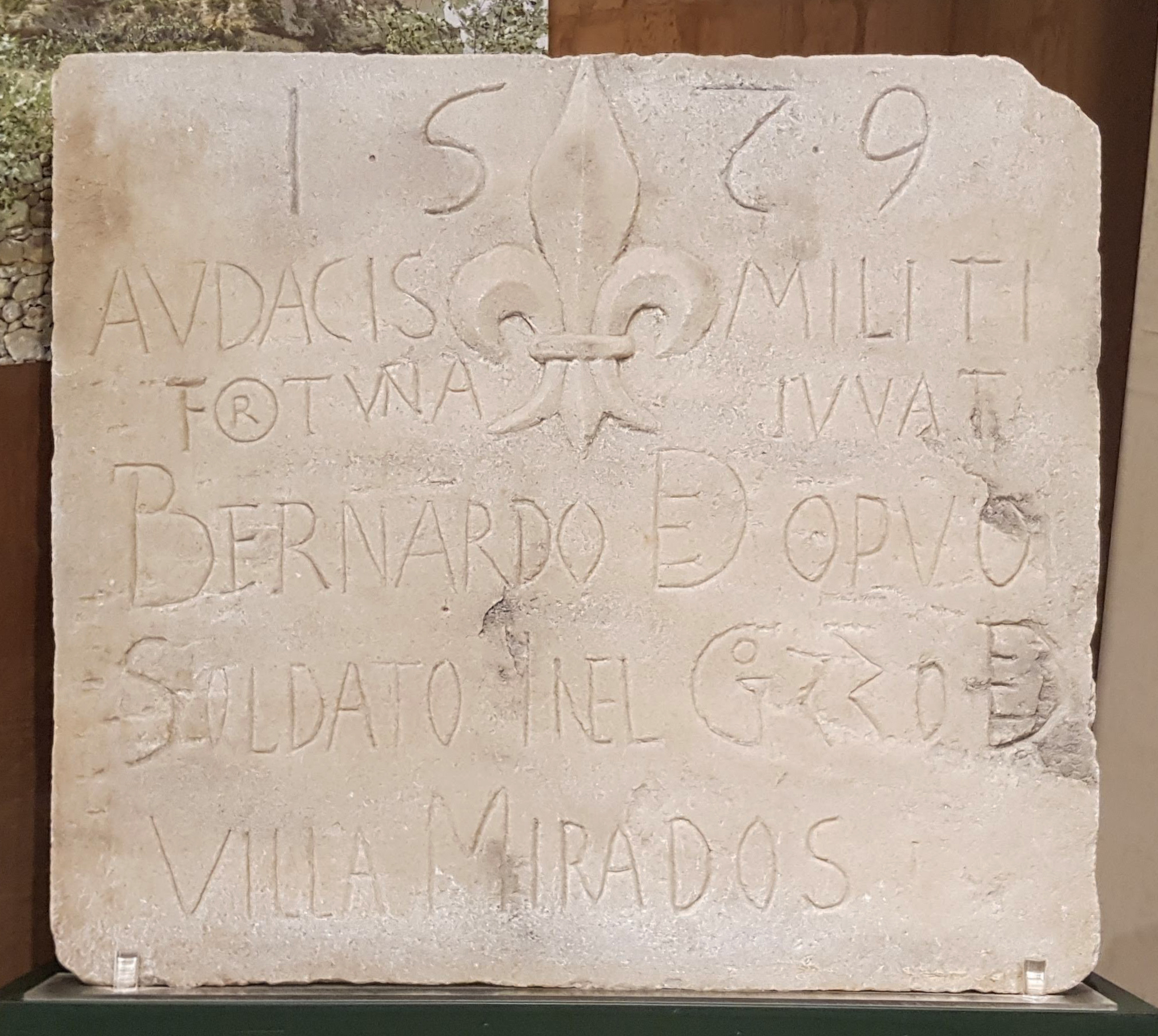 Inscription commemorating Bernardo de Opuo, located at the Gozo Museum of Archaeology in Victoria, Gozo This media is about Maltese cultural property with inventory number 01244.